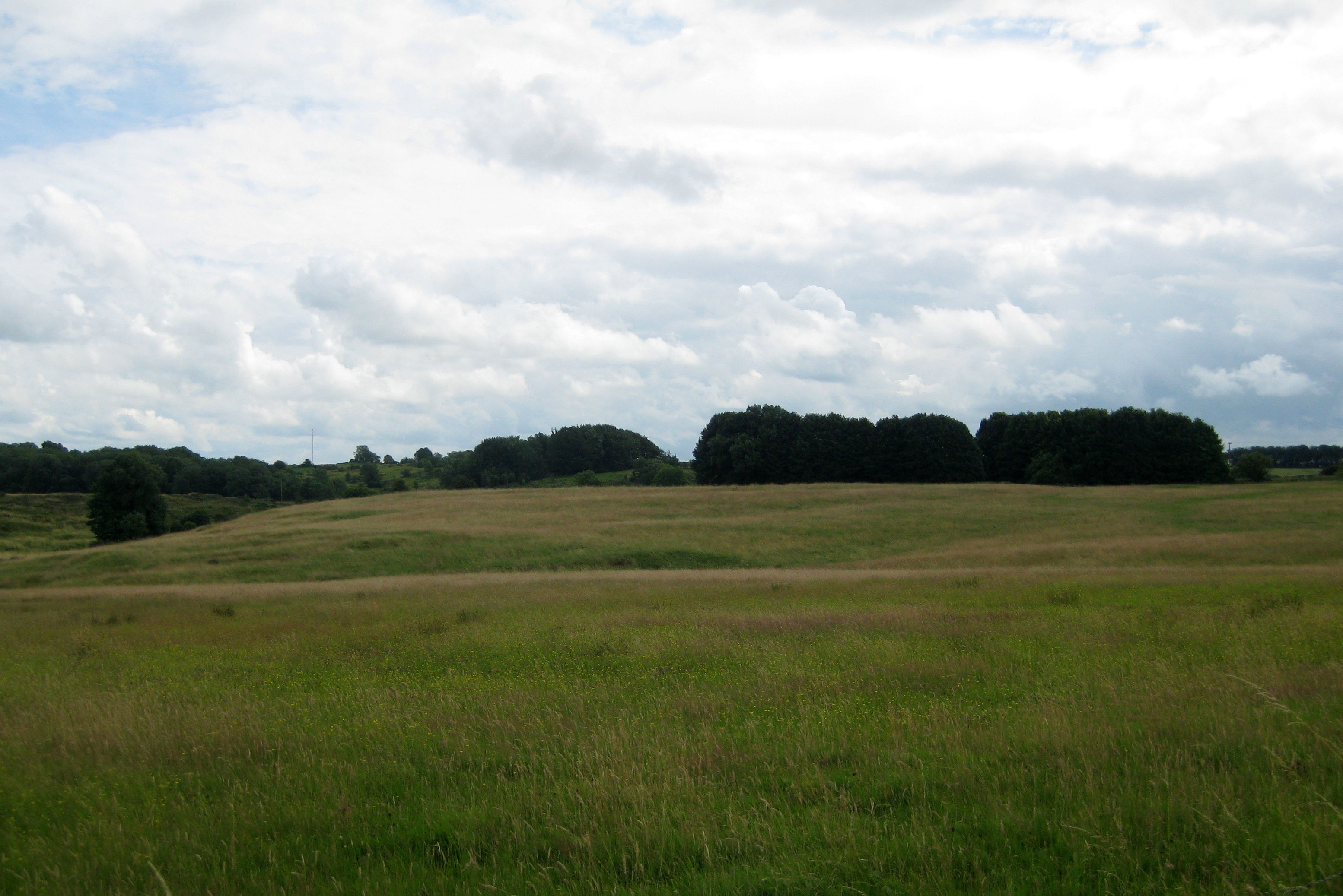 View of the Roman fort at grid reference ST504557, east of Charterhouse, Somerset, UK